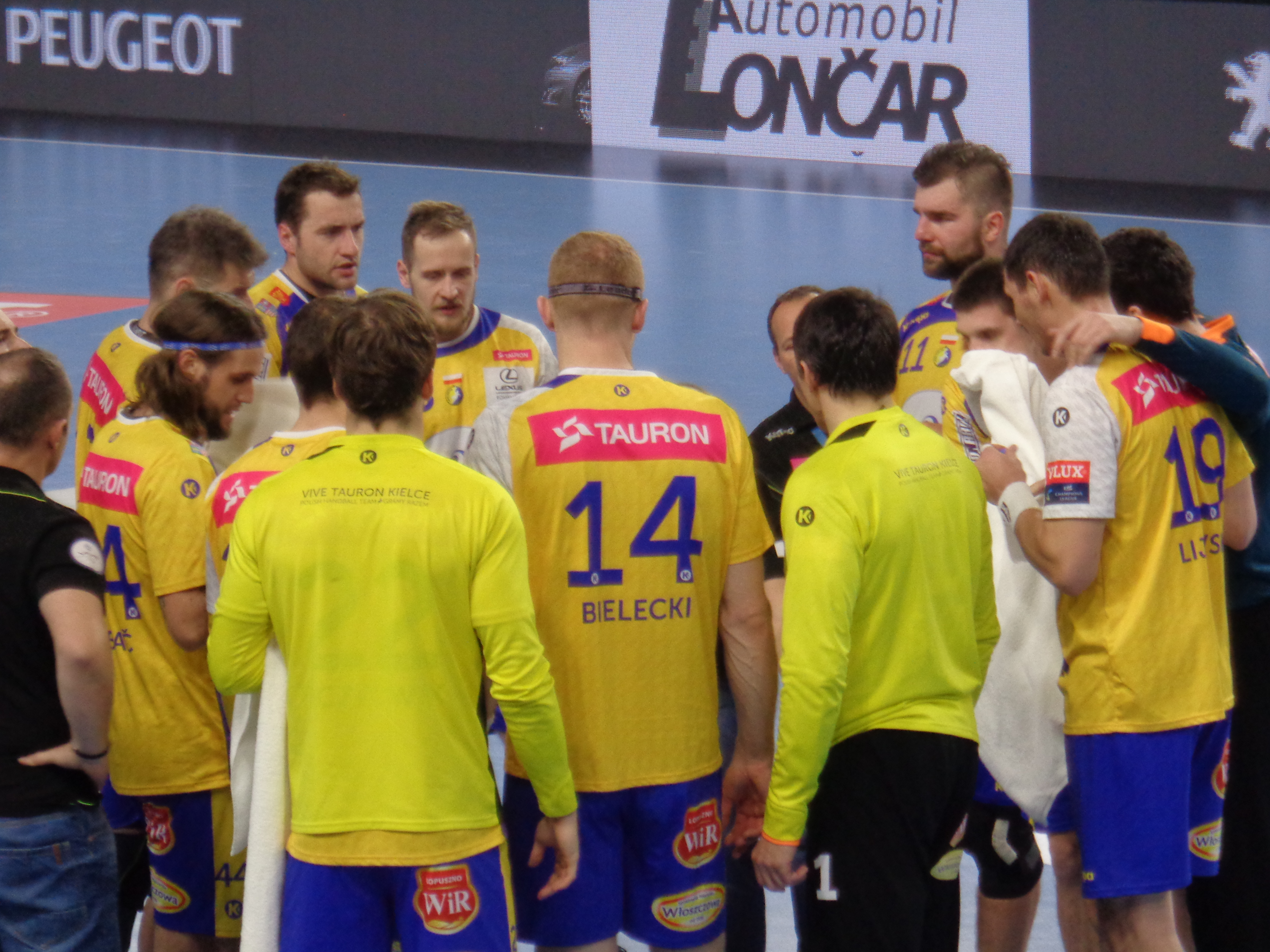 Vive Tauron Kielce handball team time-out, Poland (2016.)